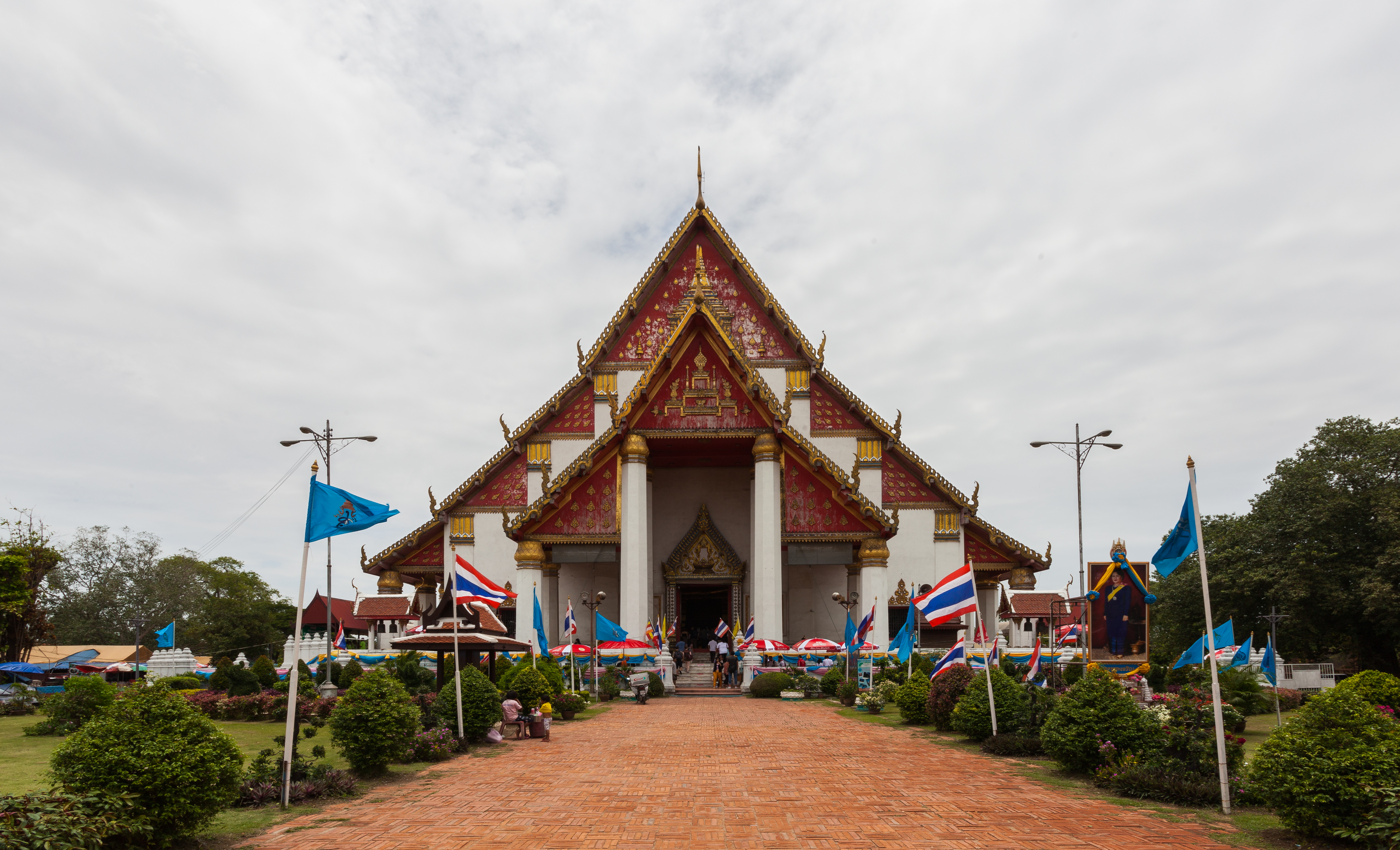 Wihan Phra Mongkhon Bophit, Ayutthaya, Thailand